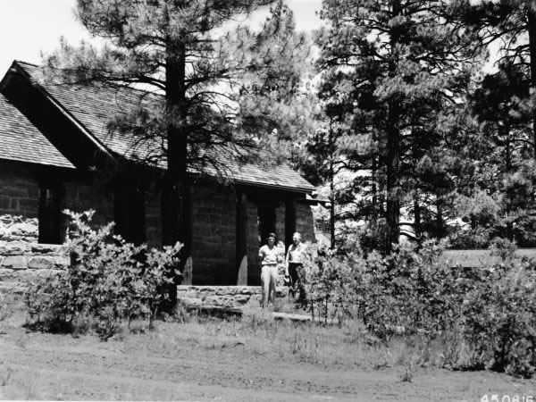 1948—Moqui Ranger Station Office. A visitor and District Ranger Clyde Moose. Photo by E.L. Perry FS #450816